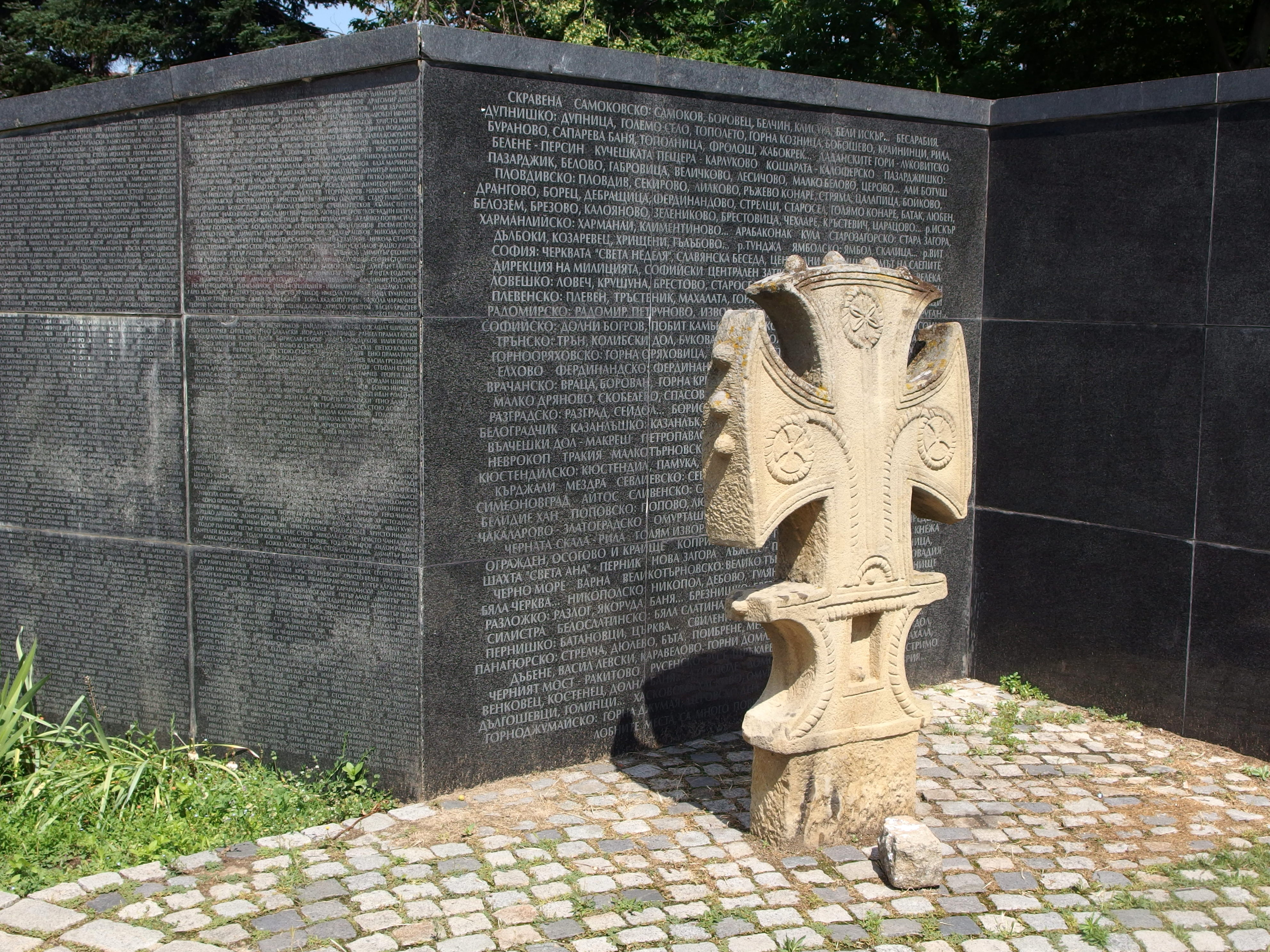 2014-06-15 in Sofia.